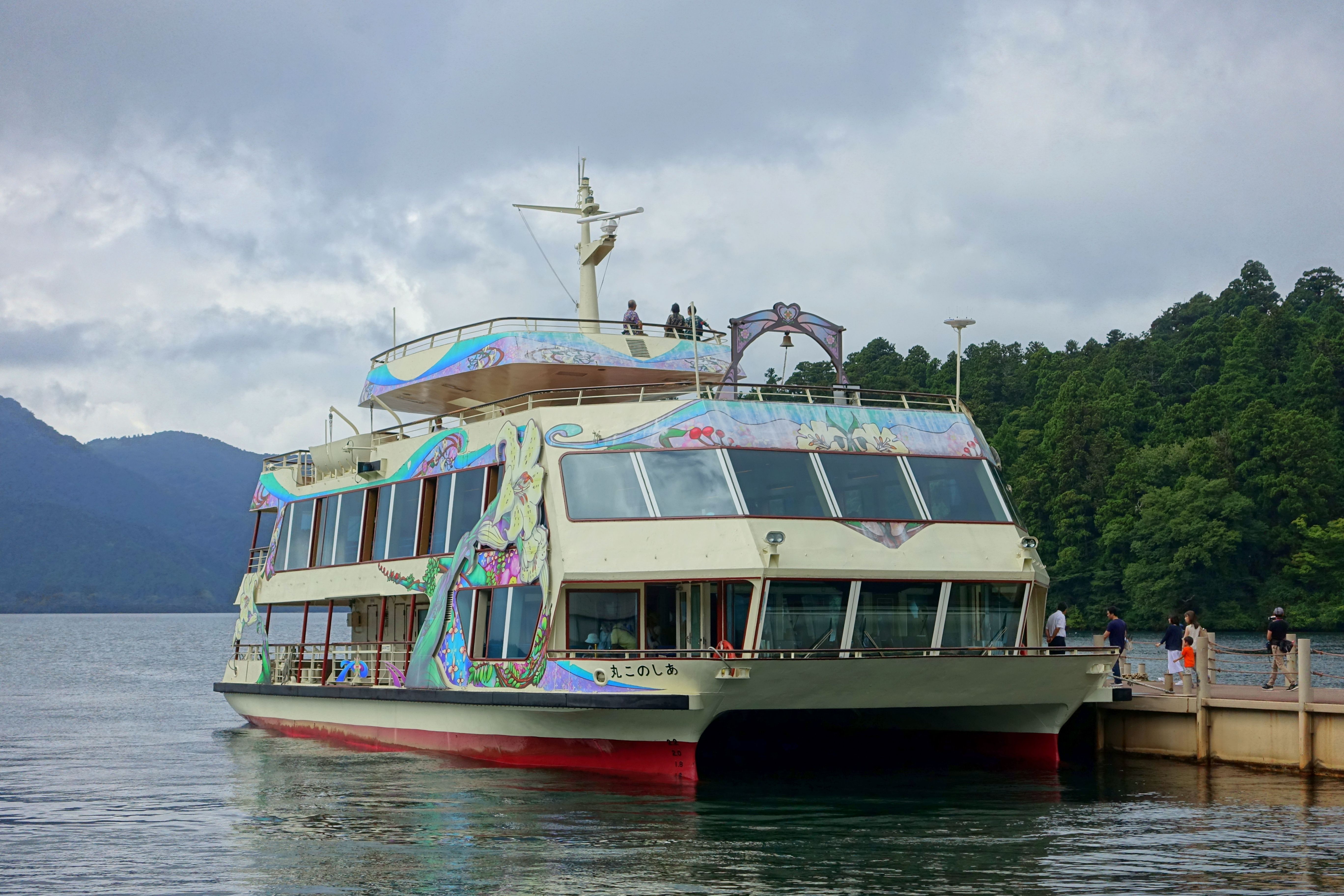 Ashinoko Boat Cruise - Hakone, Japan.